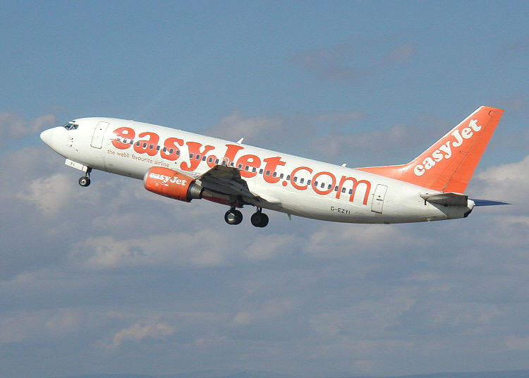 easyJet Boeing 737 (G-EZYI) taking off from Bristol Airport (England). Photographed by Adrian Pingstone in September 2003 and released to the public domain.